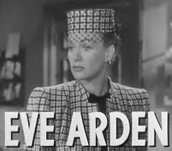 Cropped screenshot of Eve Arden from the trailer for the film Whiplash